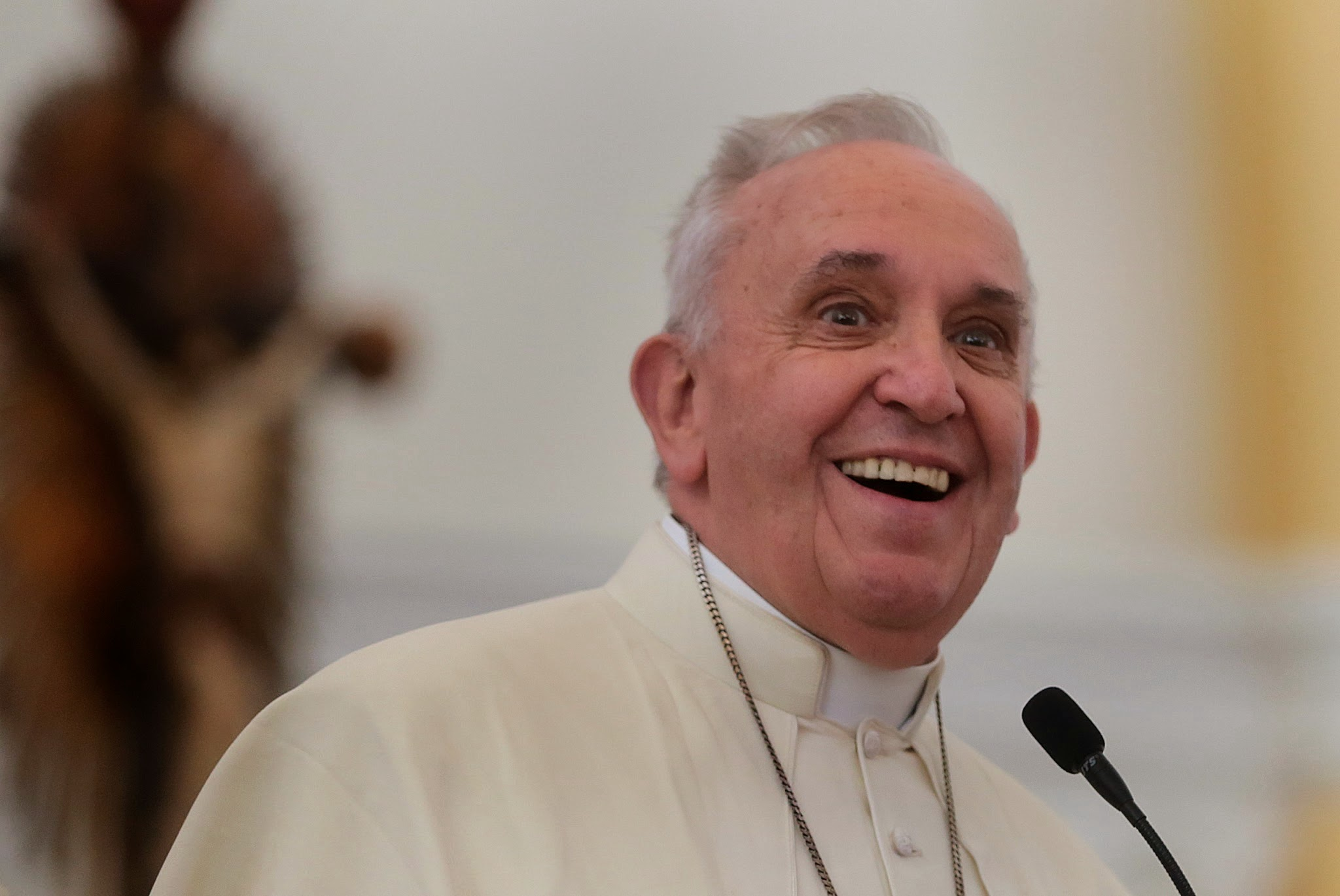 Pope Francis visits Palo Cathedral in one of his sorties in Leyte Province Saturday, January 17, 2015. The Pope announced his shortened visit to the province due to on going typhoon in the area. He made a quick blessing to items presented to him by some of the churchgoers in the cathedral before leaving.